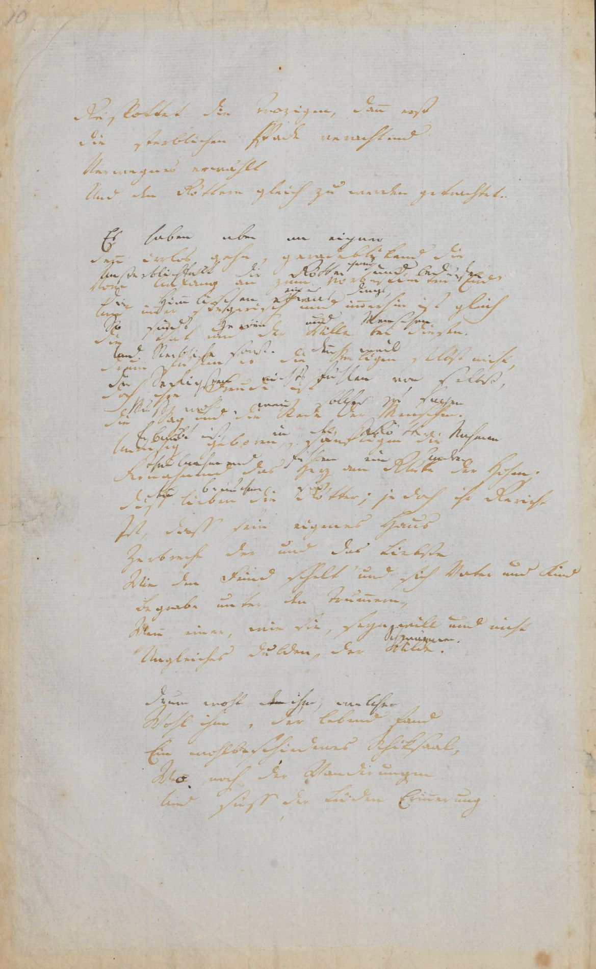 Manuscript of Friedrich Hölderlins poem "Der Rhein", Württembergische Landesbibliothek, page 6